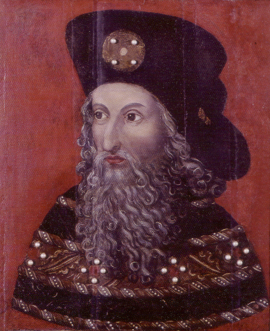 Sigismund, Holy Roman Emperor